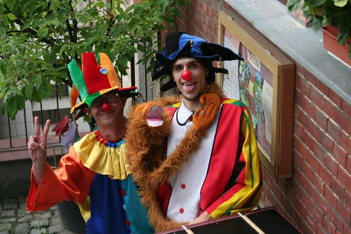 Czech clowns, Chytrolin a Sikula